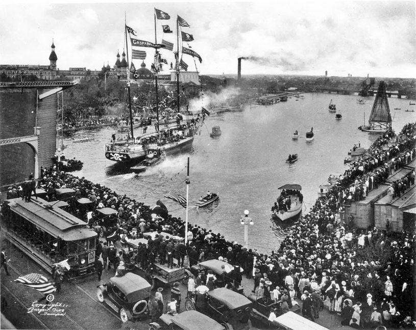 The pirate ship Jose Gasparilla during Tampa, Florida's 1922 Gasparilla parade